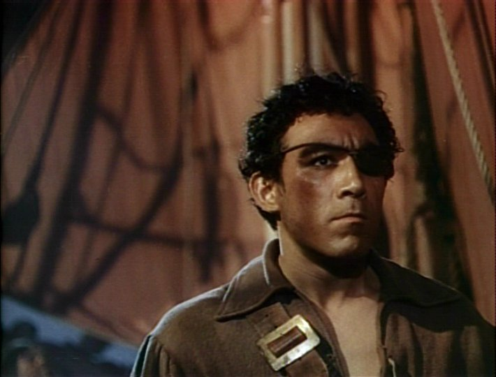 Anthony Quinn in a screenshot from the trailer for the film The Black Swan.